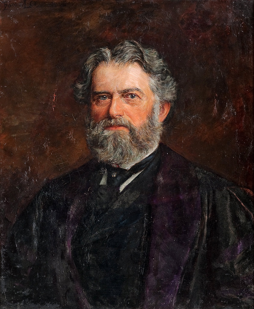 Portrait of Simon Newcomb made from a who copied a 1897 photograph. American Philosophical Collection.